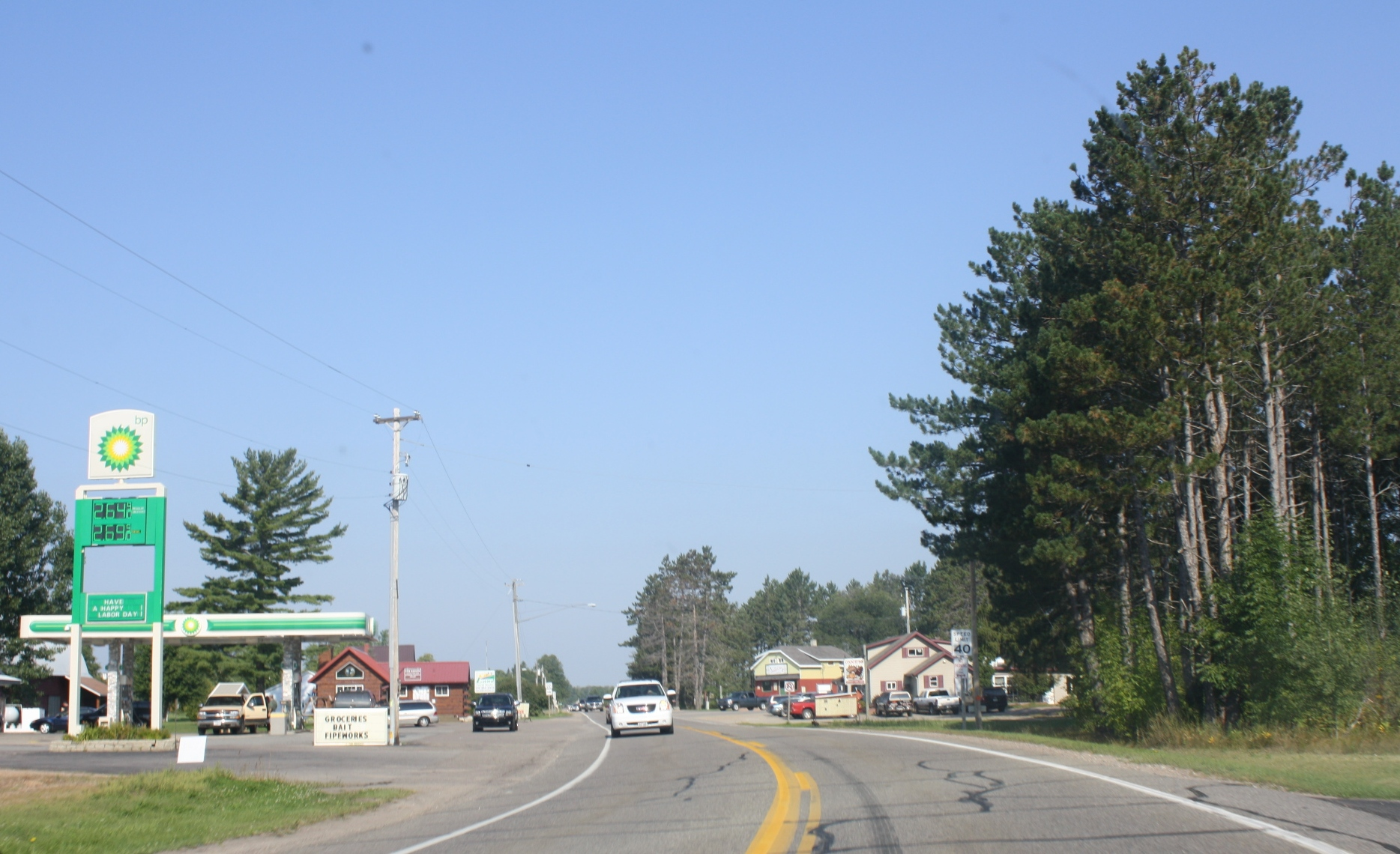 Looking north at downtown Pickerel, Wisconsin on Wisconsin Highway 55.